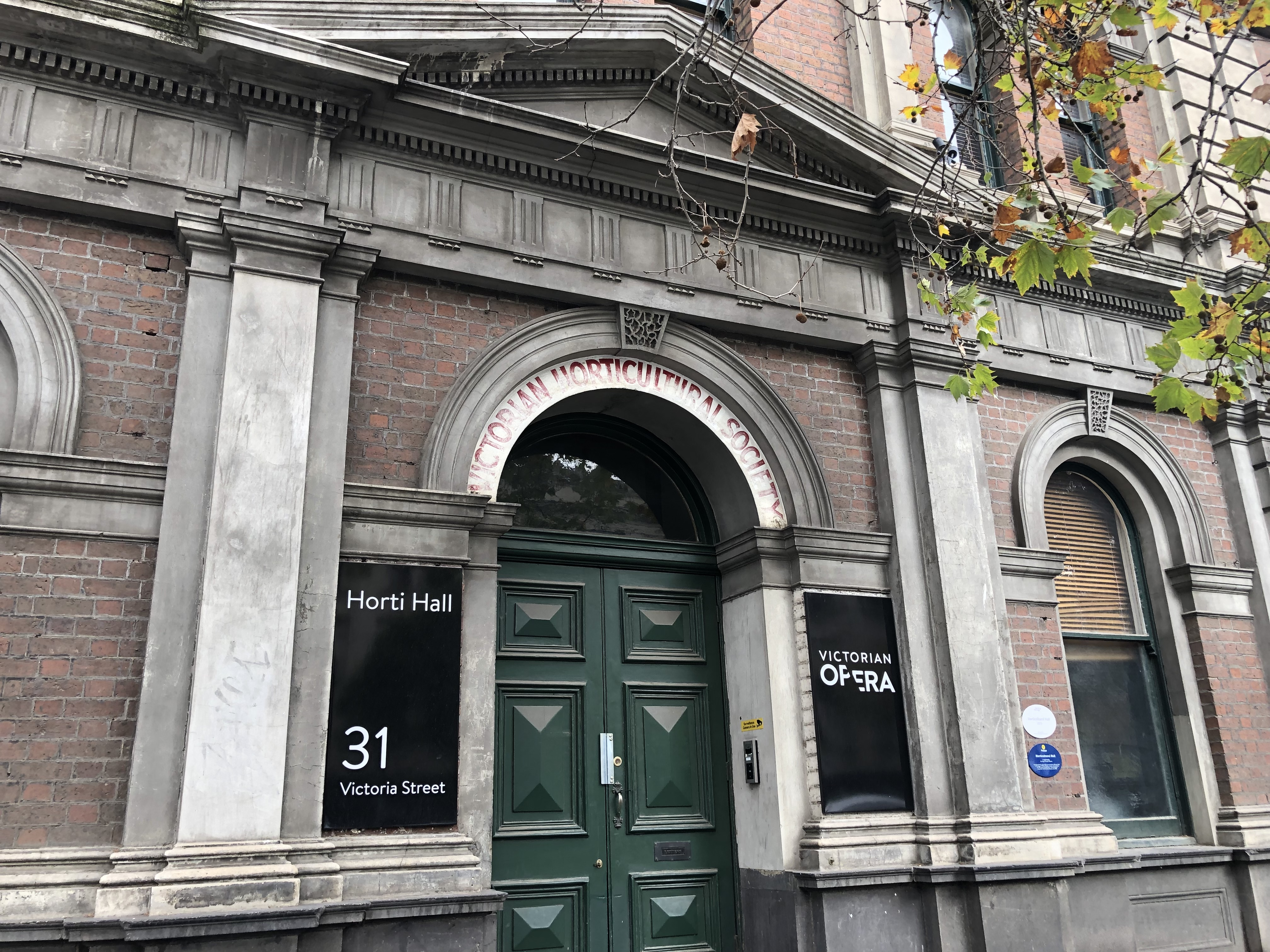 Horti Hall (also called Horticultural Hall) in Melbourne, Australia. Currently occupied by the Victorian Opera.